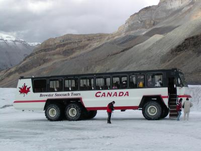 Snowcoach on the Athabasca Glacier near the Columbia Icefield Center at the Icefields Parkway in Canada. The picture was taken by me in 2002.